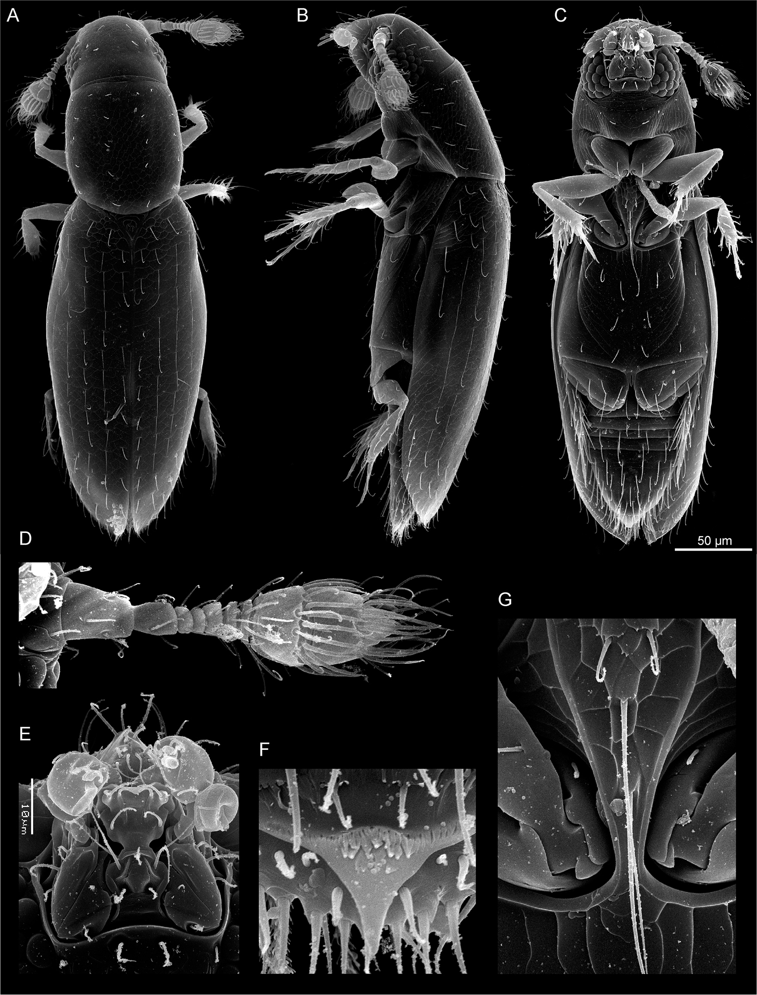 Habitus and diagnostic characters of Scydosella musawasensis, SEM: A dorsal view B lateral view C ventral view D antenna C mouthparts F pygidial tooth G mesosternal process.